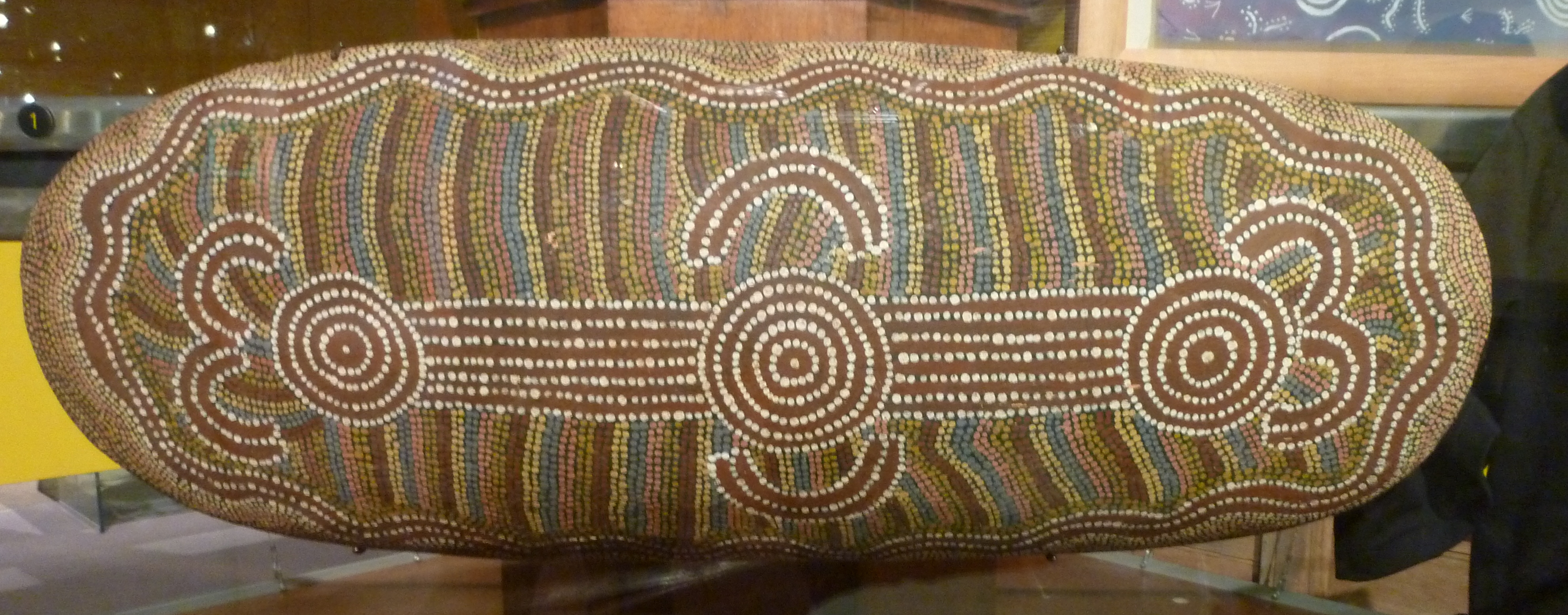 softwood coolamon with acrylic paint design. the design indicates that it was propably made for ceremonial use. Acquired by the Australian Museum in 1996, Artist unknown according to the label next to the coolamon, from Central Australia